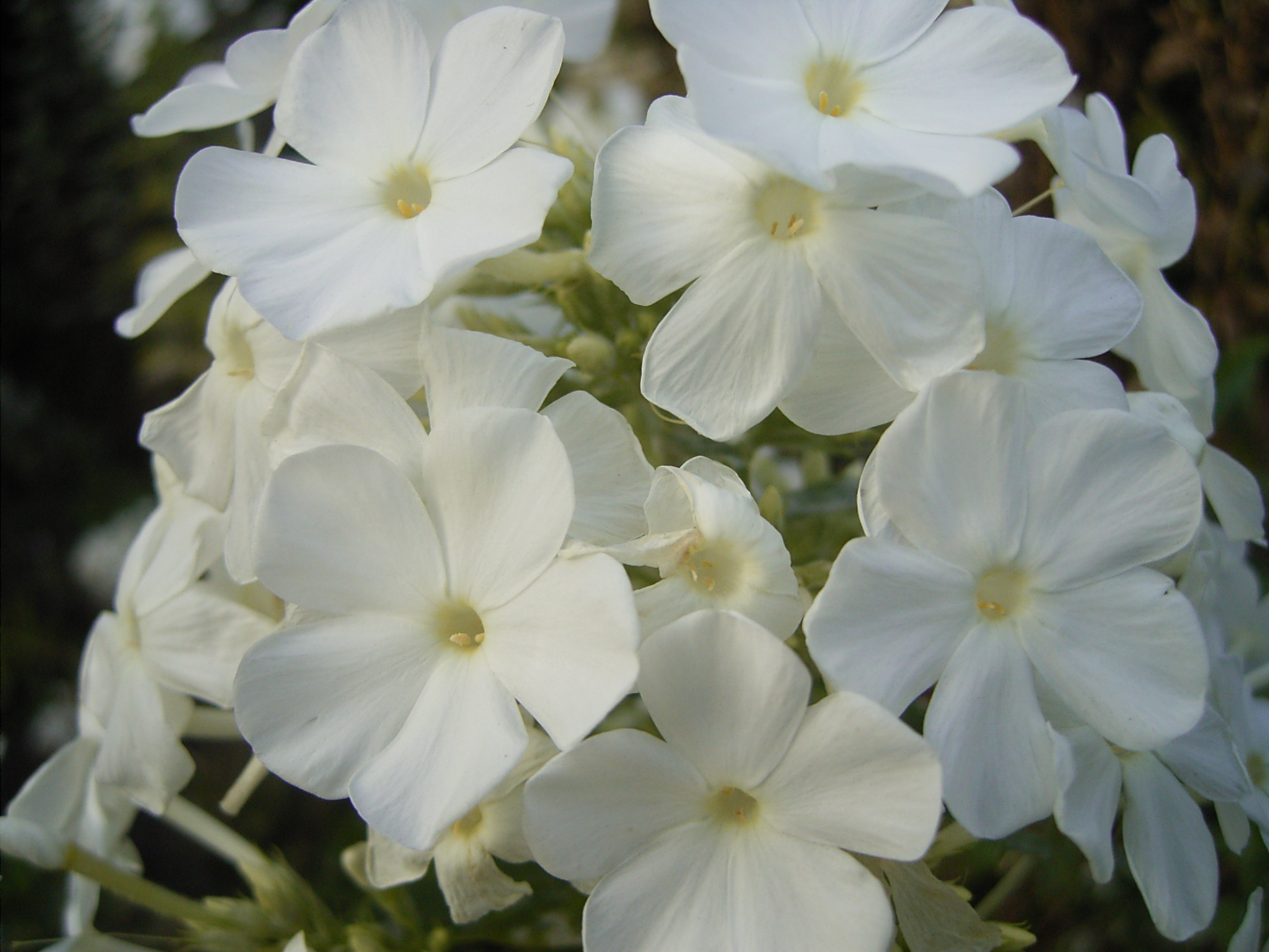 Deze foto toont de bloemen van Phlox 'Rosa Spier'. Ik nam de foto op 16-8-2005 in het Zuiderpark in Den Haag. This pic shows a close up of the flowers of Phlox 'Rosa Spier'. I took this pic in Den Haag, Netherlands on 16 aug 2005.